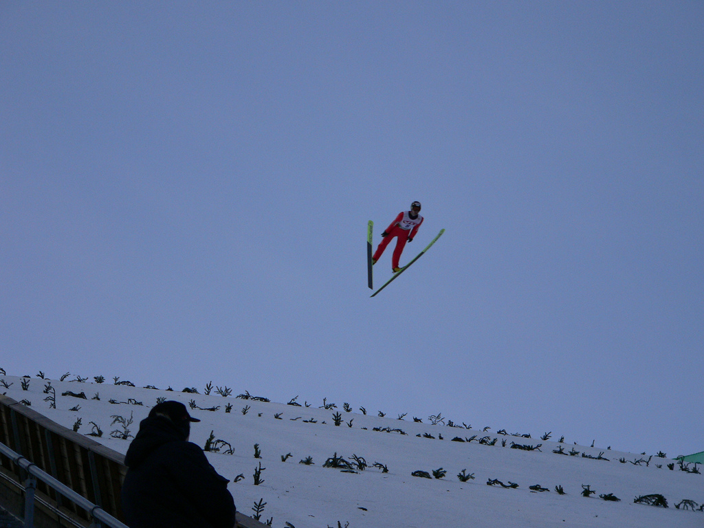 From the 2005 World Cup ski jumping event in Holmenkollen.